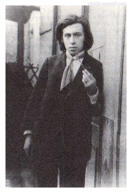 Photo of the young Ilya Grigoryevich Ehrenburg, Russian writer and journalist.